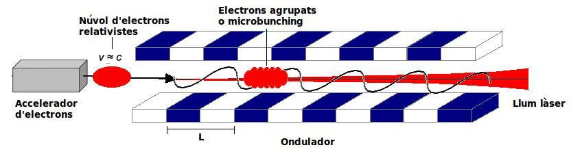 Schematics of a free electron laser